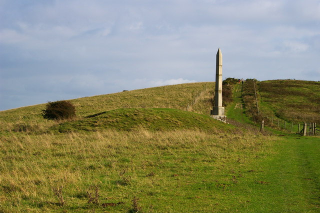 Barrow, obelisk and bridleway, Ballard Down, Purbeck The obelisk commemorates the provision of a new supply of water for Swanage in 1883. It was taken down in 1941 as it was a landmark of aid to enemy aircraft. When re-erected after the war the bottom section was found to be cracked and was placed at the side.